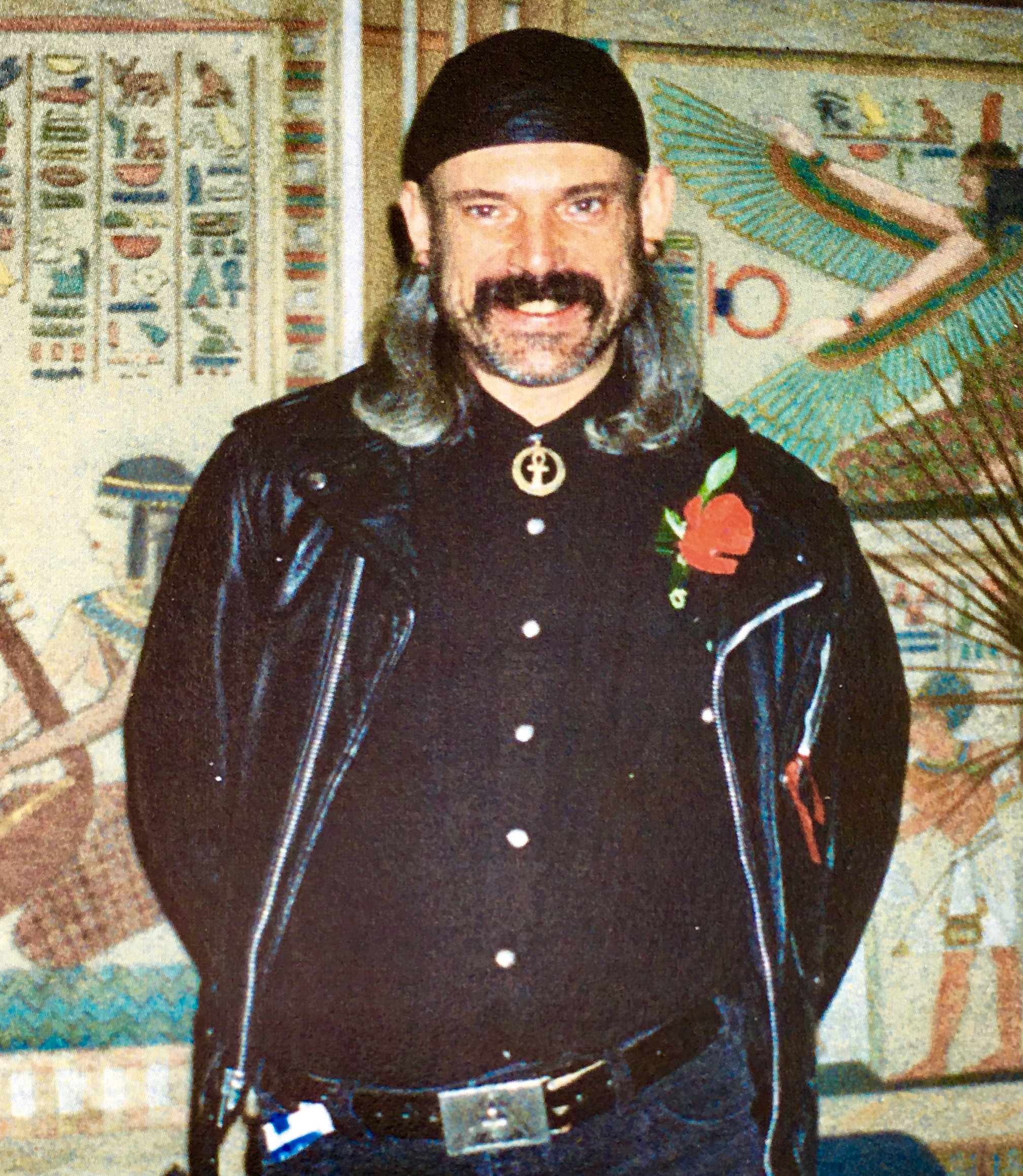 James at home. 1987